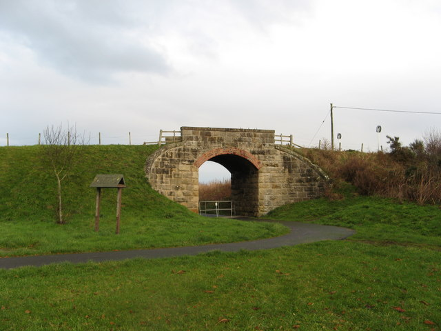 Old Railway Bridge, Garmouth Bridge over the former Moray Coast Railway at Garmouth, just east of the location of the former station. This is now the starting point of the Spey Viaduct walk which is part of a longer coastal trail and National Cycleway.